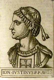 Engraved portrait of Emperor Justin I by Giovanni Battista de'Cavalieri published in Romanorum imperatorum effigies, Rome, 1592